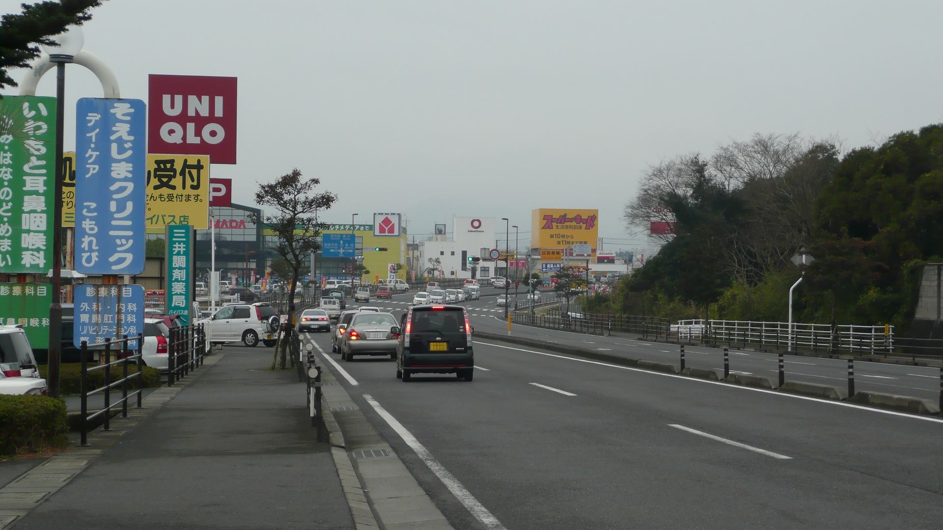 Route 220 Kanoya Bypass (Asahibaru, Kanoya City, Kagoshima, Japan)